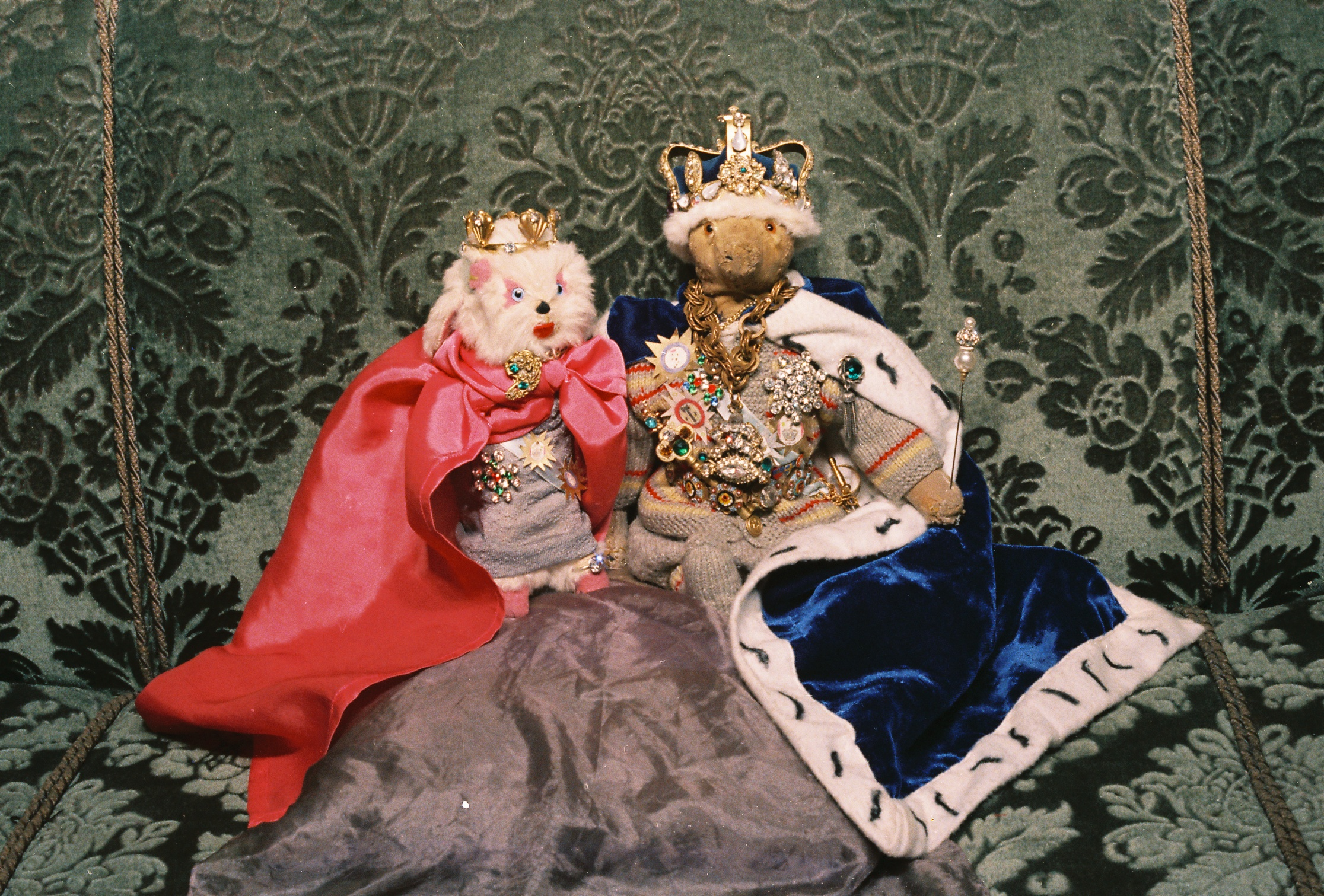 Queen Lamantha and King Littleteddy I of Littleteddyville (coronation portrait), as released by image owner RistessonPlace: Granbacksvägen 5, Danderyd, Sweden